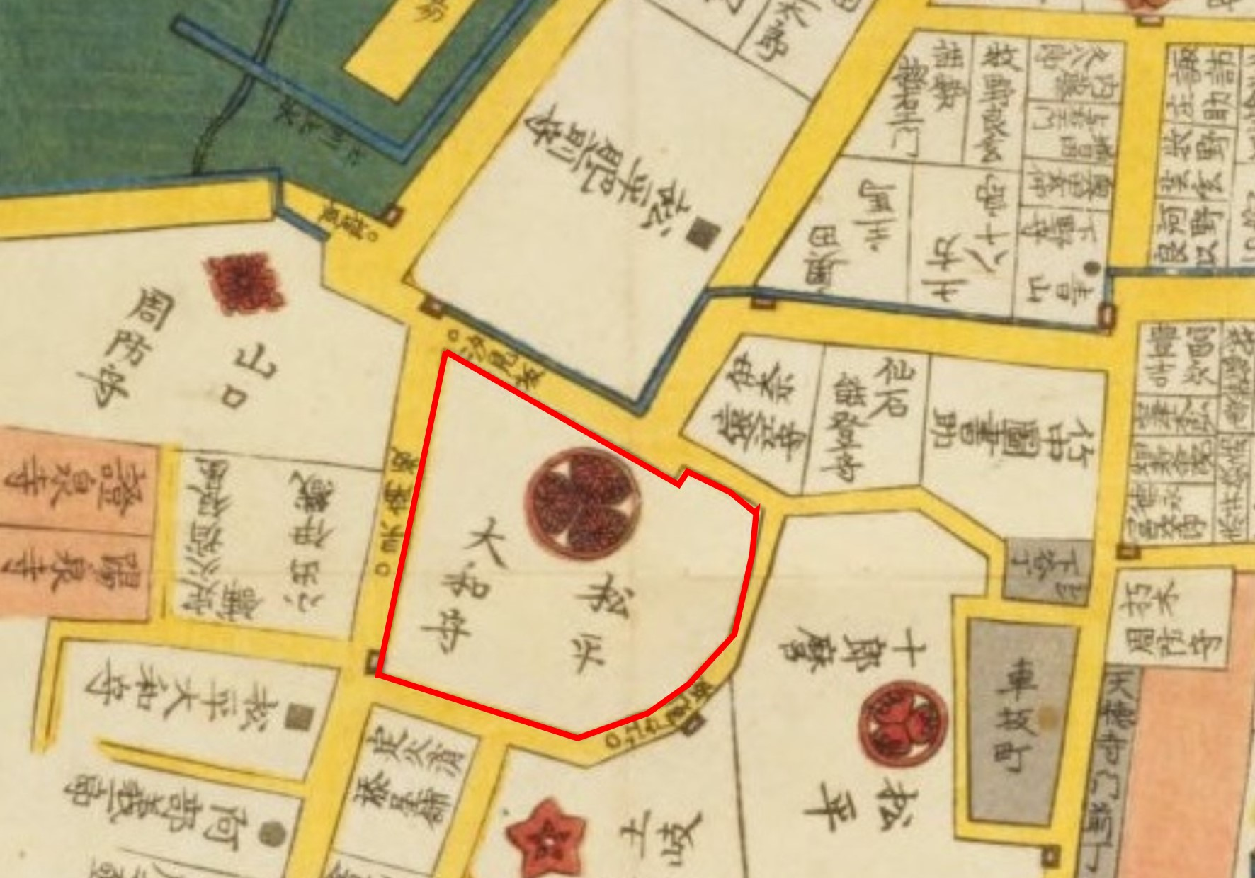 Matsudaira Maebashi clan residence at Edo